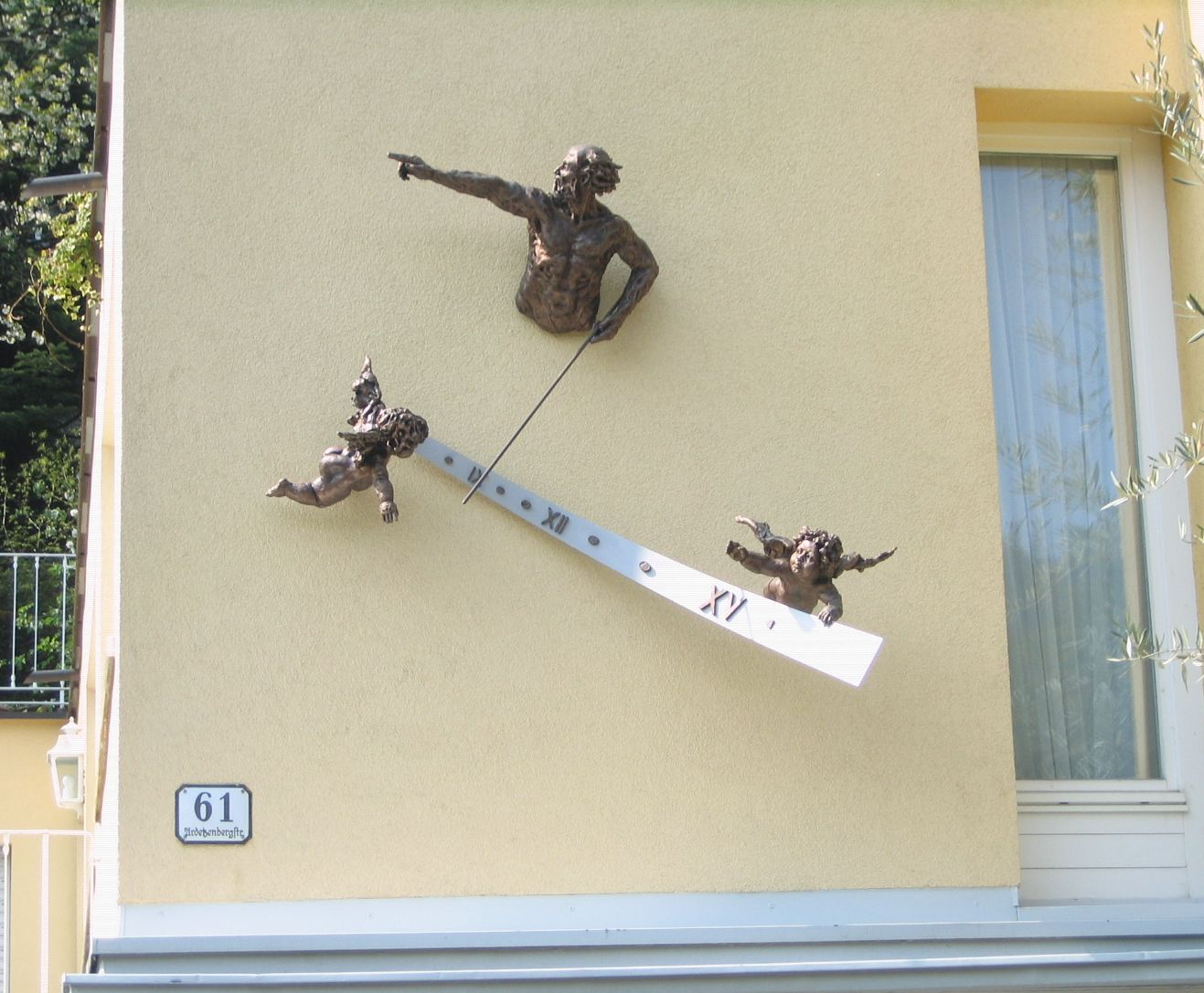 Sundial made by Gerry Mayer at a house wall in Feldkirch, Ardetzenbergstraße 61